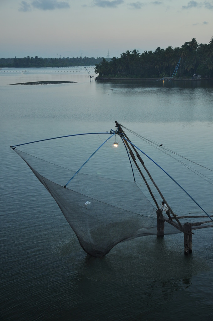 Chineese fishing n et at Kollam ashtamudi lake